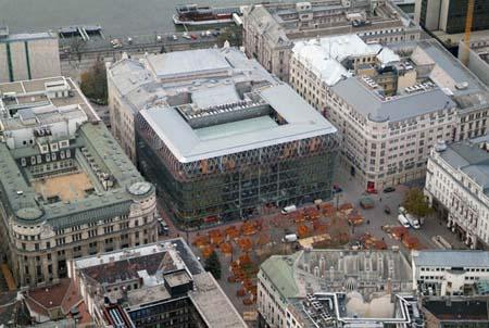 Vörösmarty square, Hungary, aerial photography